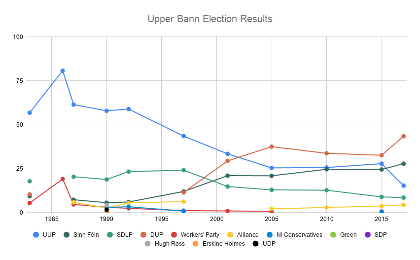 Upper Bann Election Results 1983 to 2017 (Westminster Elections) UCU-NF is under UUP in 2010